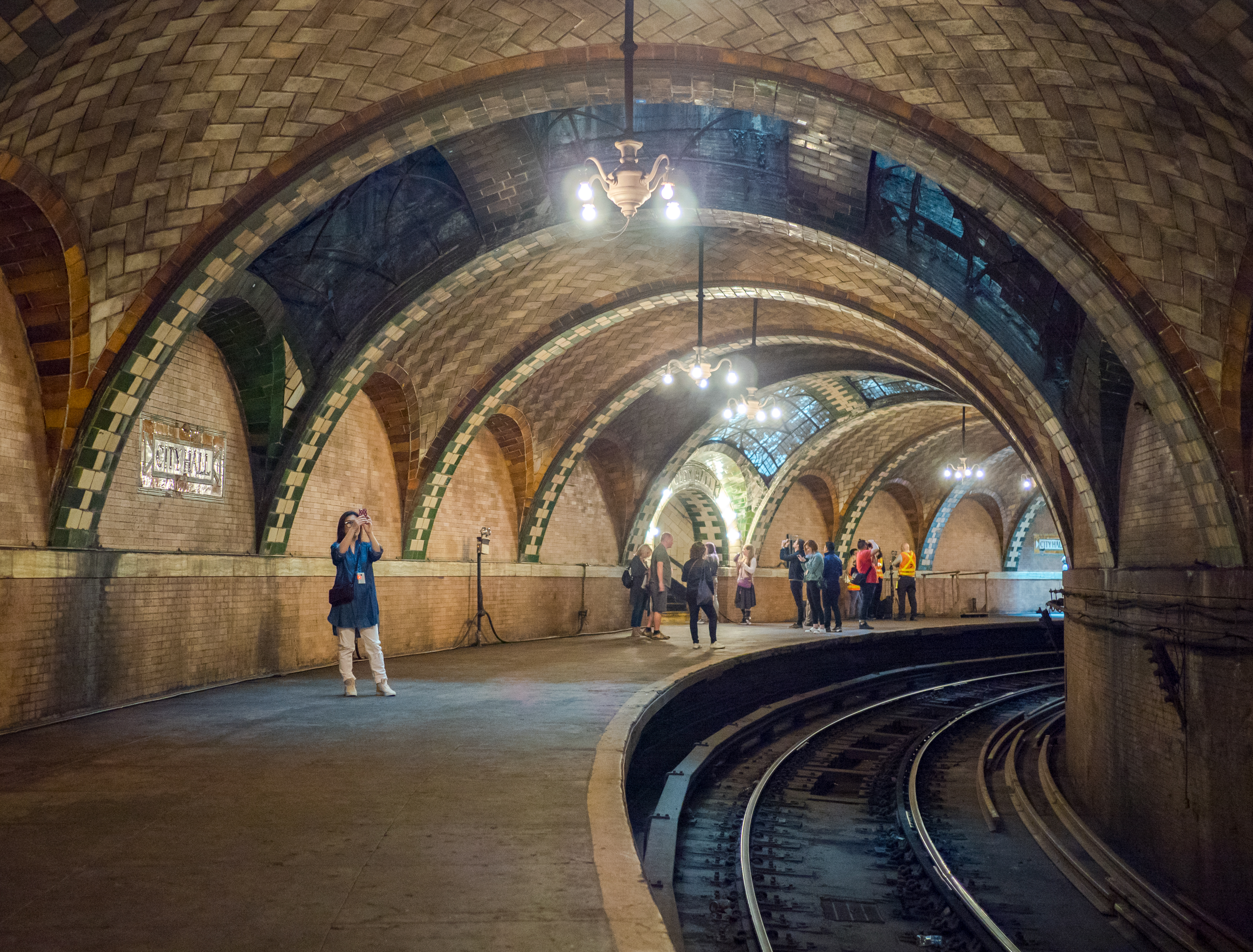 The defunct City Hall subway station in New York City, closed since 1945.